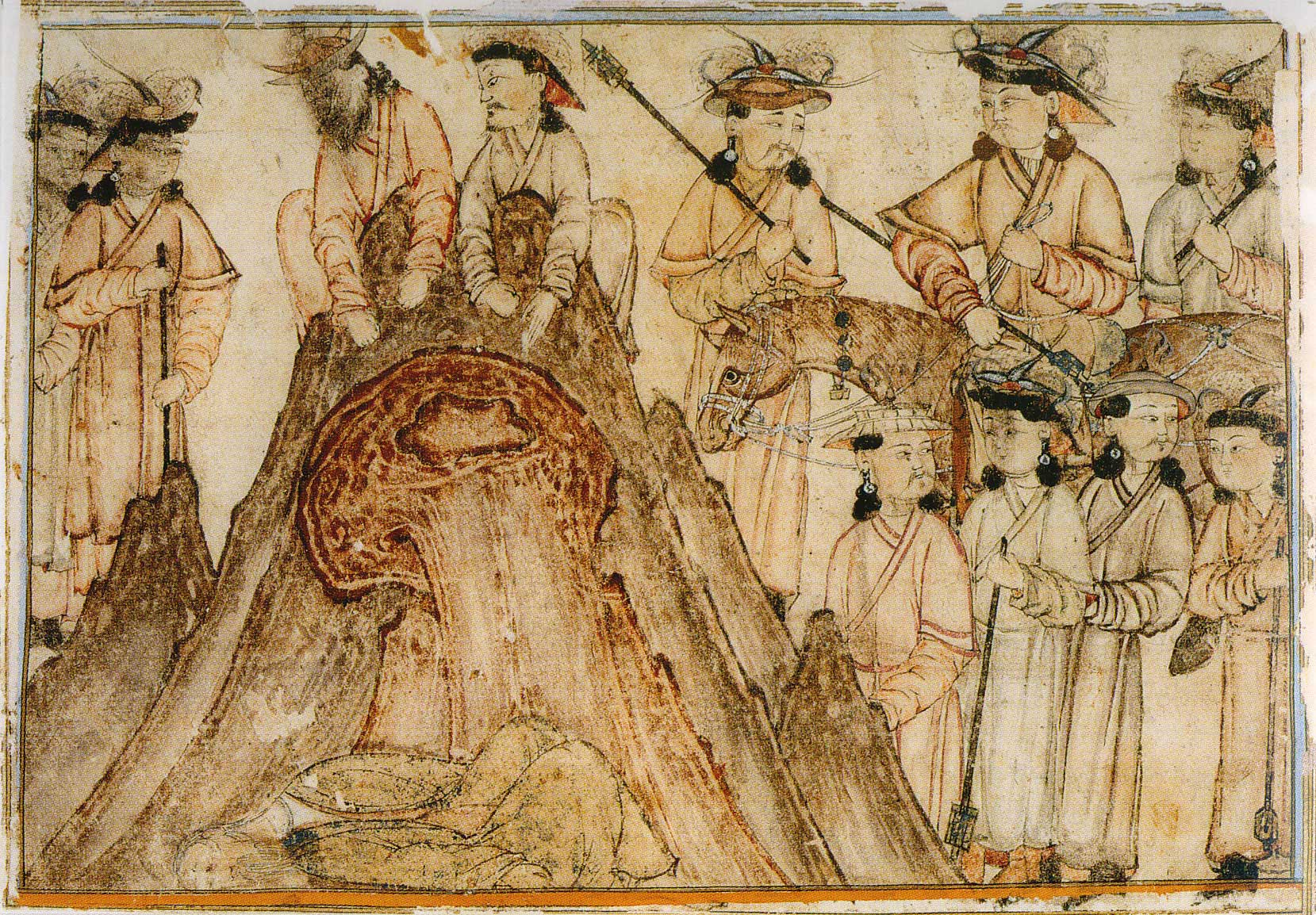 Execution. Illustration of Rashid-ad-Din's Gami' at-tawarih. Tabriz (?), 1st quarter of 14th century. Water colours on paper. Original size: 18.5 cm x 26.2 cm. Staatsbibliothek Berlin, Orientabteilung, Diez A fol. 70, p. 49. The executed - long and full beard probably means he is not a Mongol - has been thrown off a cliff.